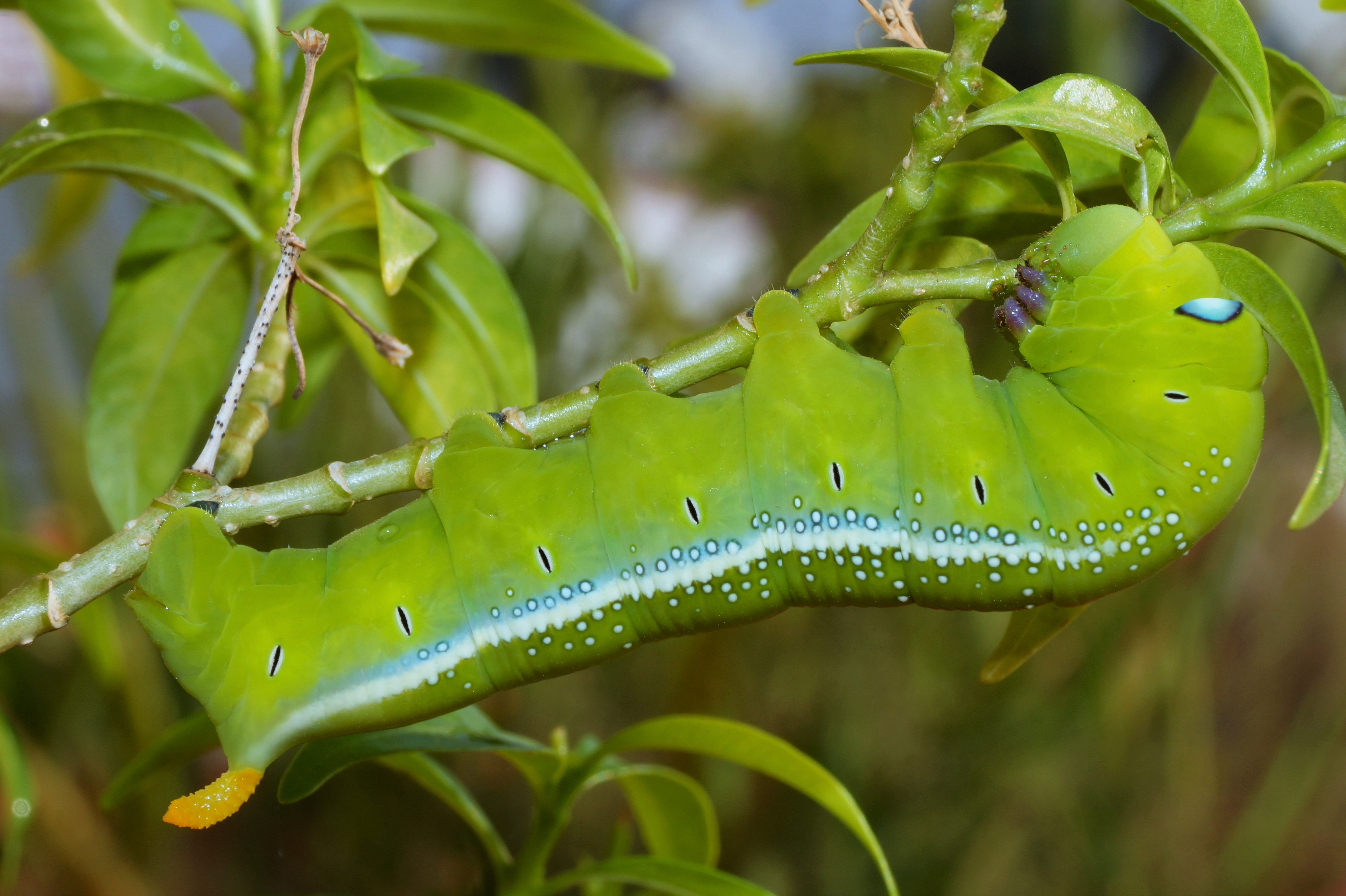 a fully grown oleander hawk moth caterpillar